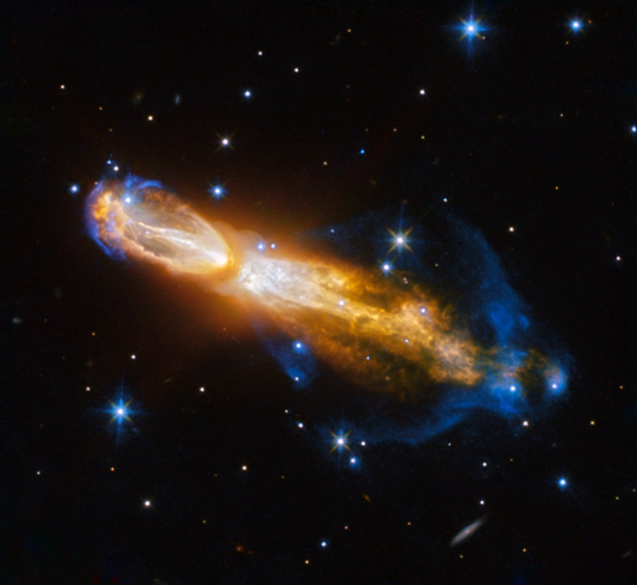 The Calabash Nebula, pictured here — which has the technical name OH 231.8+04.2 — is a spectacular example of the death of a low-mass star like the Sun. This image taken by the NASA/ESA Hubble Space Telescope shows the star going through a rapid transformation from a red giant to a planetary nebula, during which it blows its outer layers of gas and dust out into the surrounding space. The recently ejected material is spat out in opposite directions with immense speed — the gas shown in yellow is moving close to a million kilometres an hour. Astronomers rarely capture a star in this phase of its evolution because it occurs within the blink of an eye — in astronomical terms. Over the next thousand years the nebula is expected to evolve into a fully fledged planetary nebula. The nebula is also known as the Rotten Egg Nebula because it contains a lot of sulphur, an element that, when combined with other elements, smells like a rotten egg — but luckily, it resides over 5000 light-years away in the constellation of Puppis (The Poop deck).